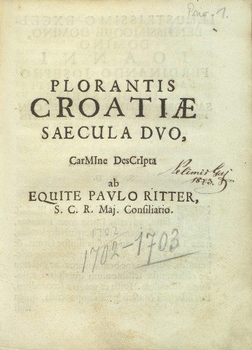 Main page of Plorantis Croatiae saecula duo from 1703, vitezović